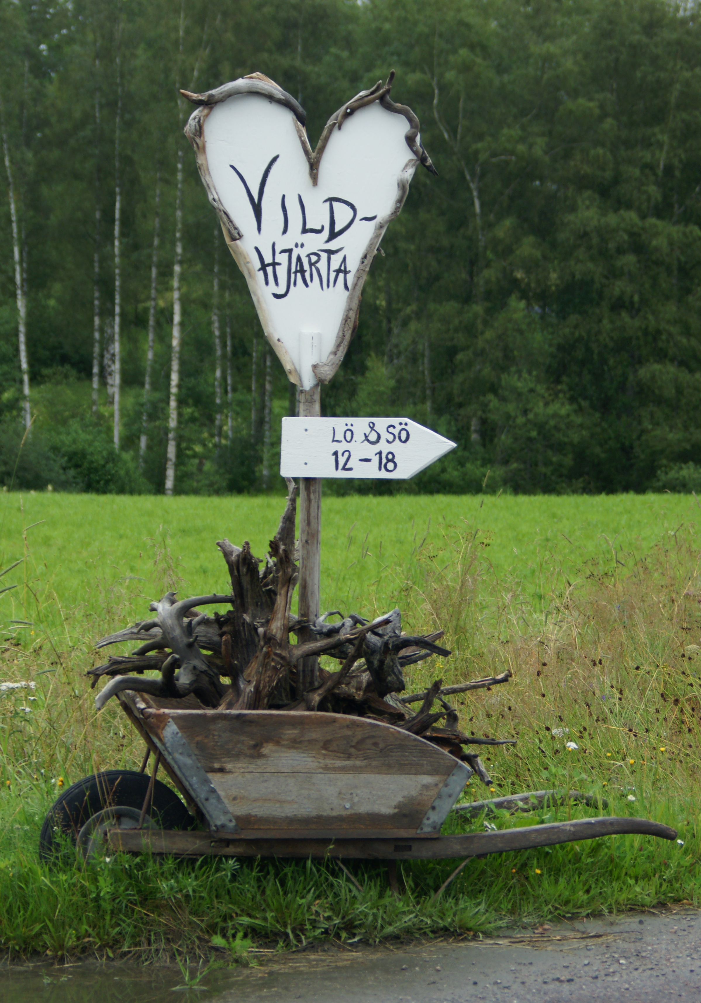 Road sign to Swedish artist Maria Westerberg (Vildhjärta).